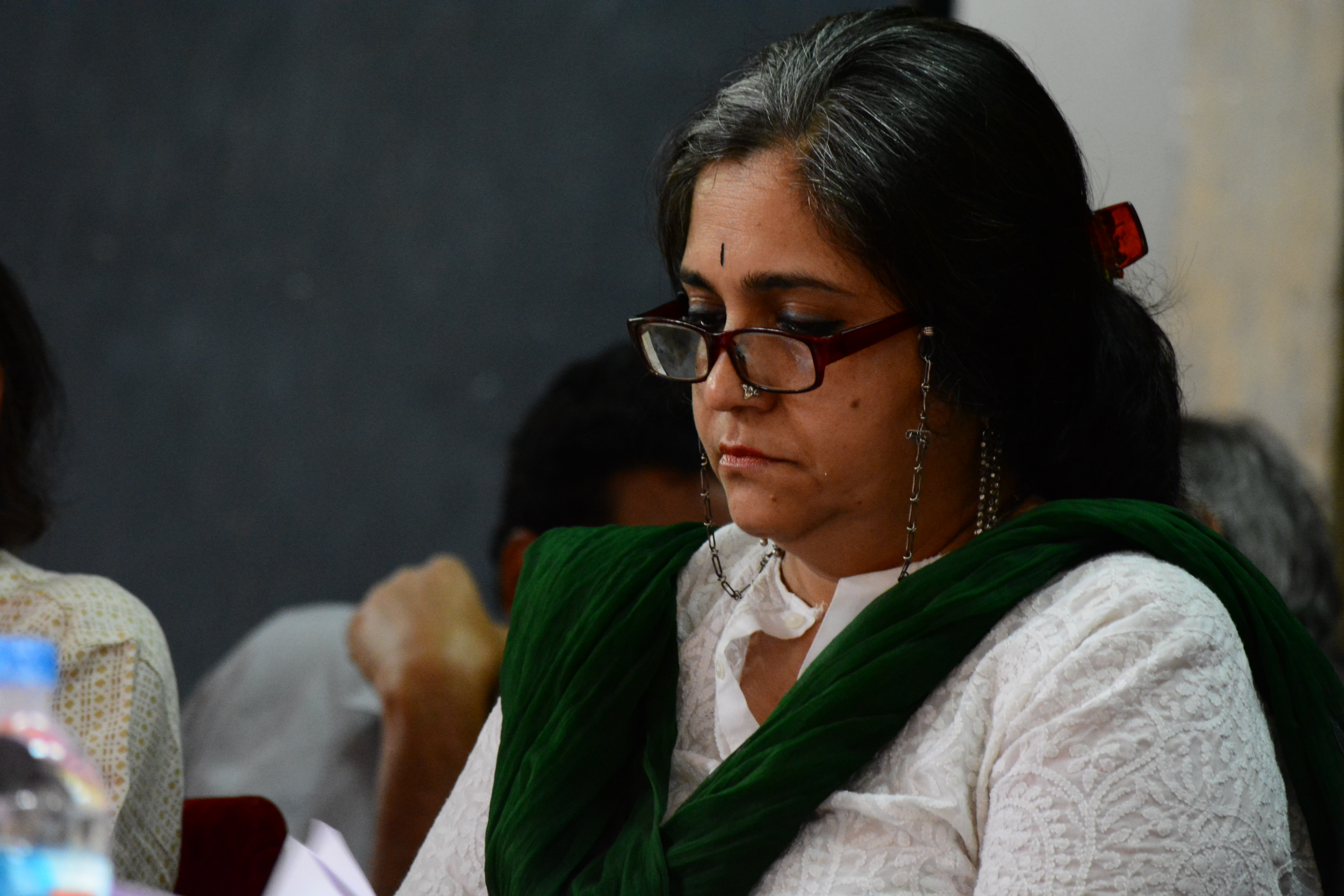 Teesta Setalvad addressing a gathering at VJT Hall Trivandrum, Kerala. Photo by: Syed Shiyaz Mirza